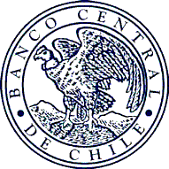 Official Logo of the Central Bank of Chile